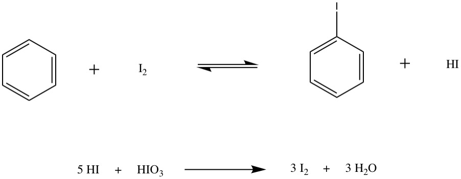 Iodination of benzene